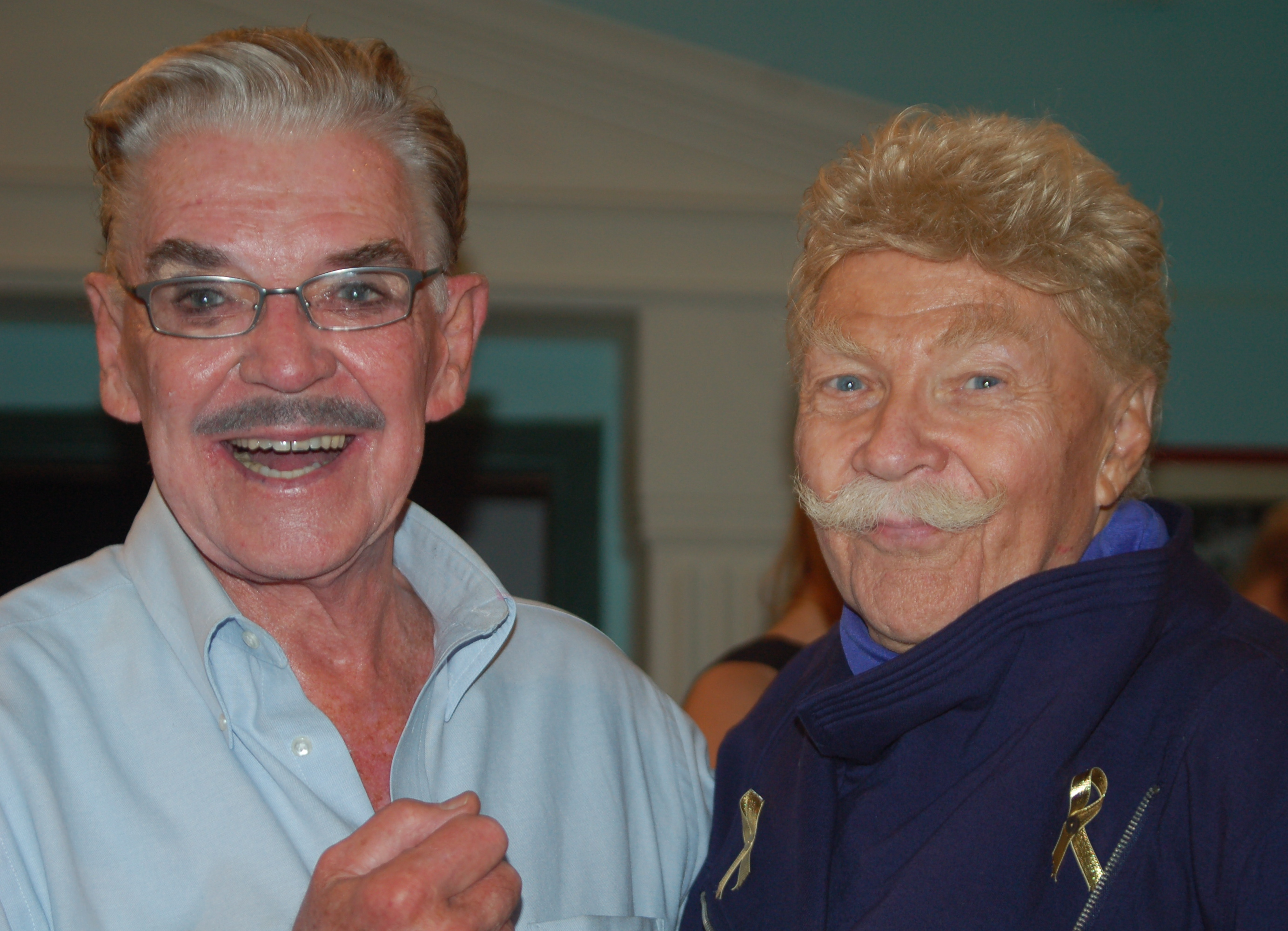 Jack Betts and Rip Taylor in the Green Room at the Marilyn Monroe Theatre after Betts' performance in Barrymore.